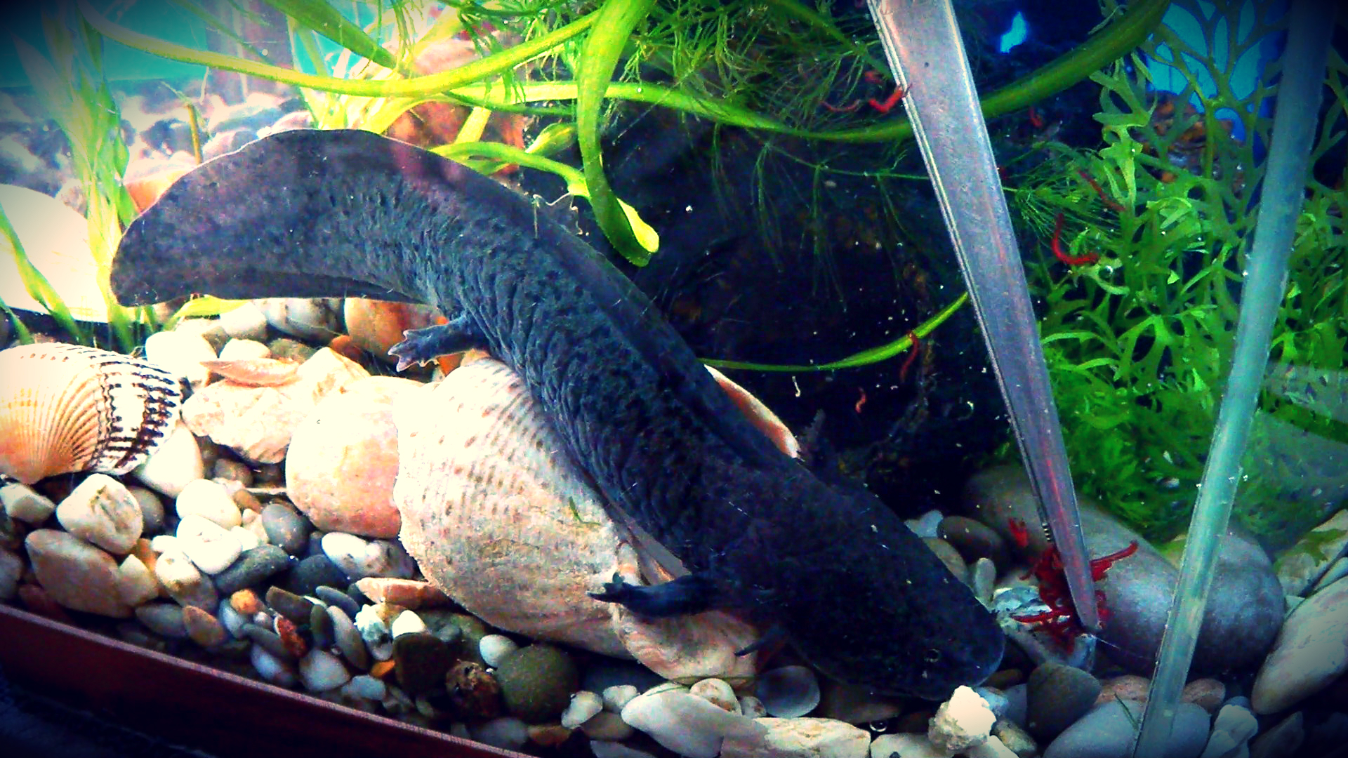 feed axolotl